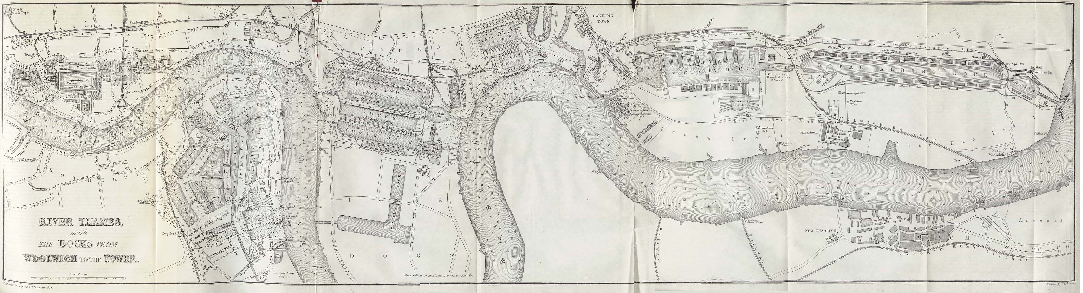 "River Thames with the Docks from Woolwich to the Tower" from This map shows all of the main upstream London docks except the King George V Dock, which had not been built. It was to be located to the south of the Royal Albert Dock, which is the large dock at the far right.